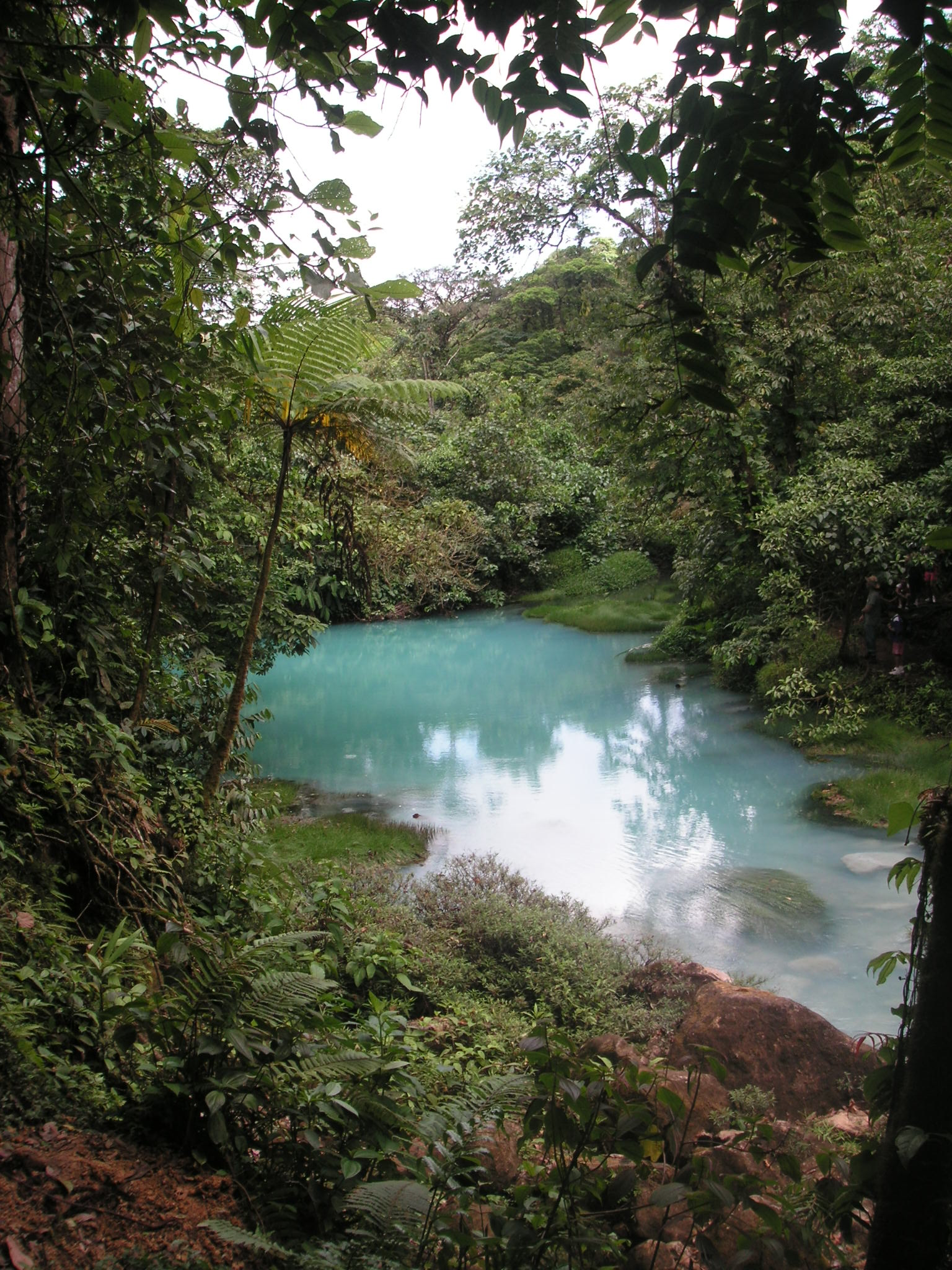 Rio Celeste (sky blue river) at Tenorio National Park. The sky blue waters are colored by the sulphur from the dormant volcano beneath the mountain.